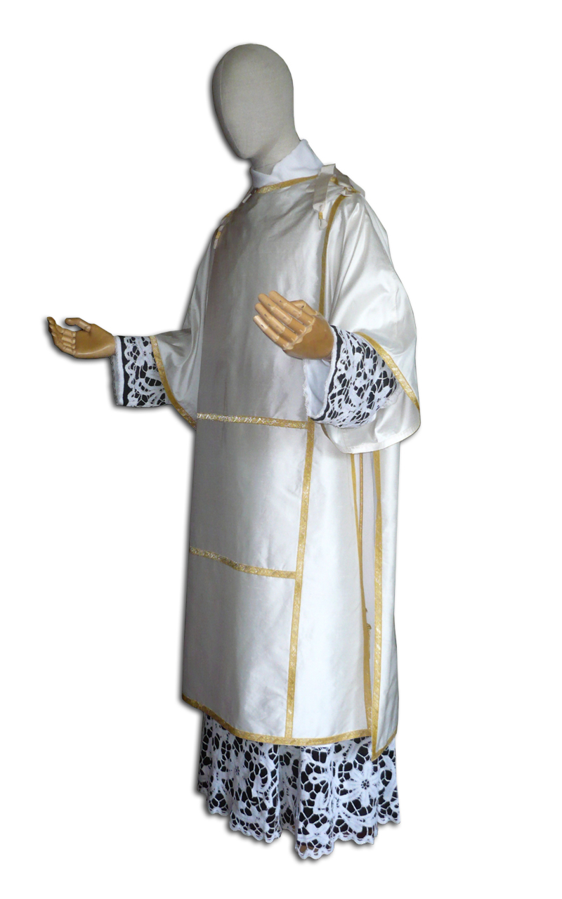 Pontifical tunic